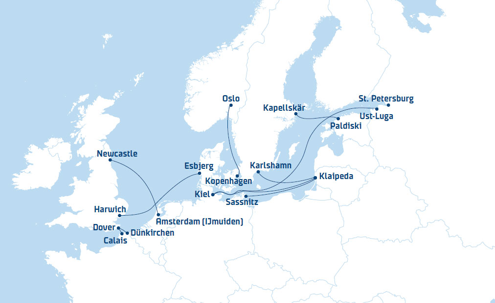 routemap of the DFDS company party "DFDS Seaways"